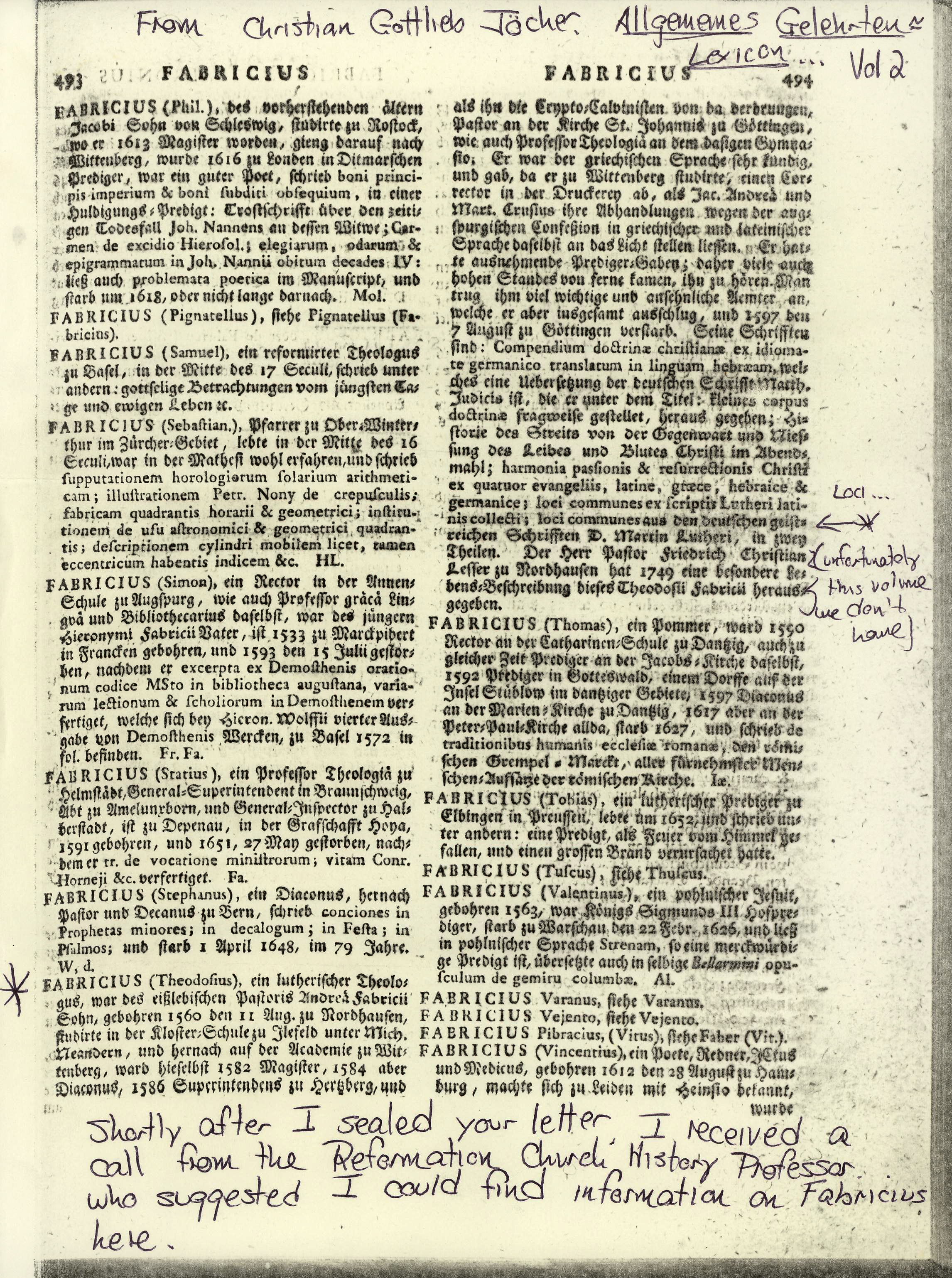 Page in German from the "Allgemeines Gelehrten Lexikon" by Christian Gottlieb Joecher, published in 1750, citing biographical entry on Theodosius Fabricius